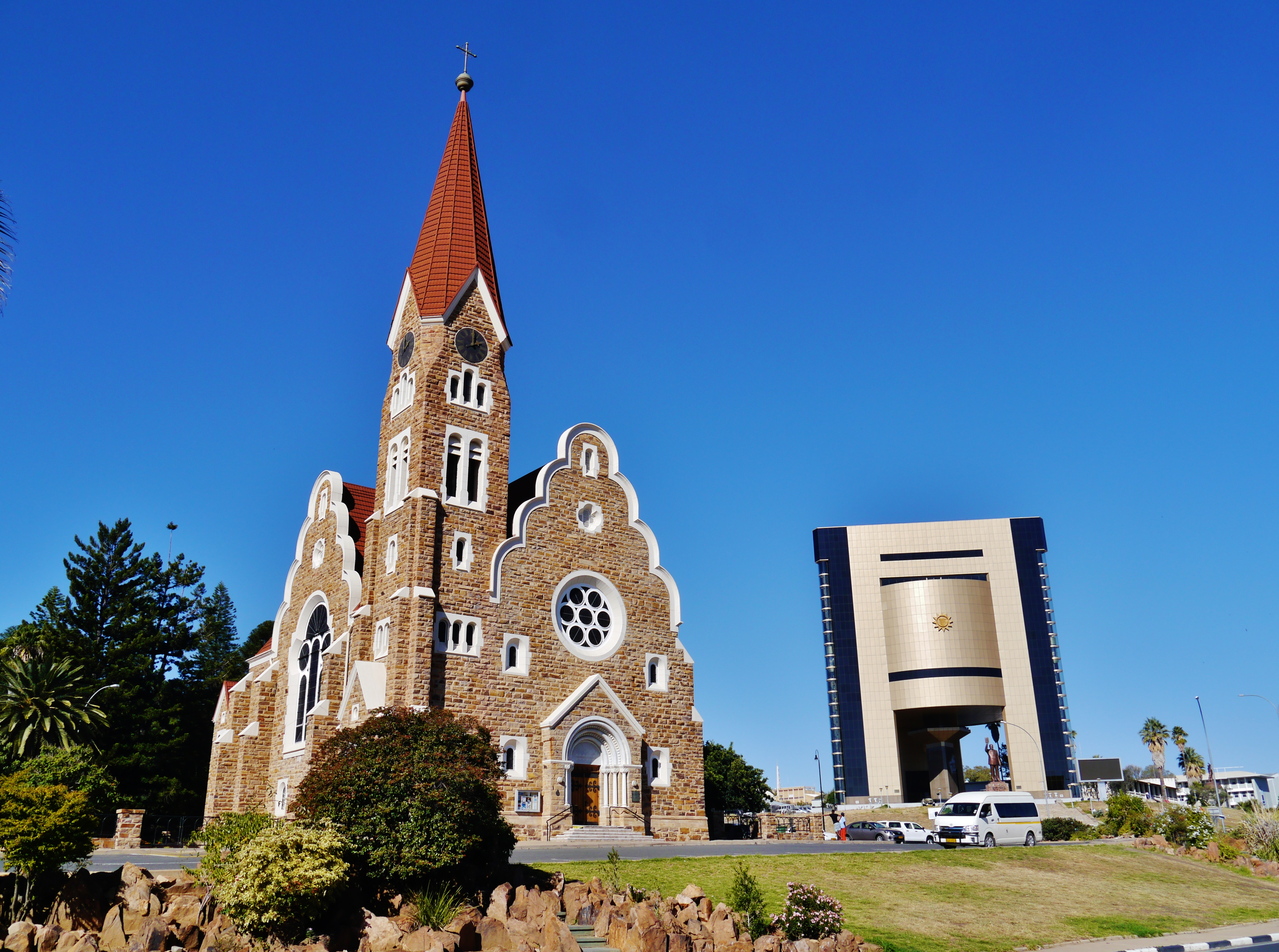 Christ Church & Independence Memorial Museum, Windhoek, Region of Khomas, Namibia